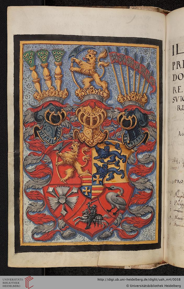 Coat of Arms of Friedrich II. of Schleswig-Holstein-Gottorf, illustrating his inscription to Heidelberg University in 1582